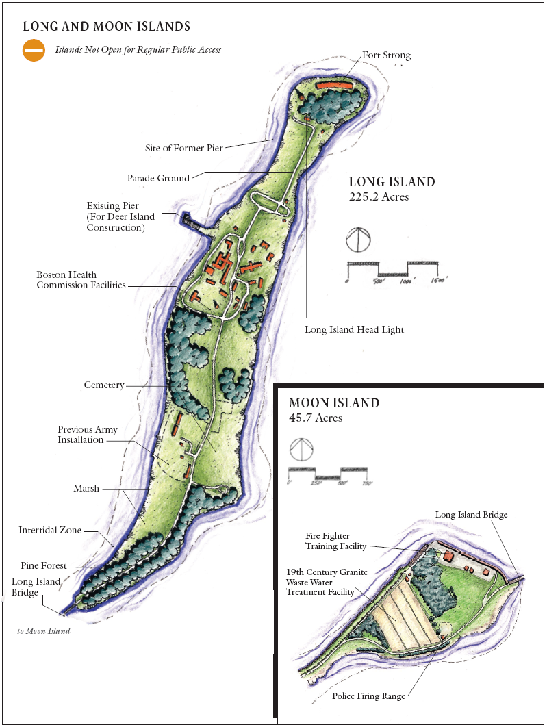 Long and Moon islands, two of the Boston Harbor Islands in Boston, Massachusetts, USA. This image is believed to have been produced as part of a re-use planning study for the City of Boston. The map shows the rough location of general features on Long Island. The label "Fort Strong" on the map only refers to the concrete emplacements for Btys Drum, Hitchcock, and Ward on the North Head, not to the whole fort, which in fact occupied the entire northerly 25% of the island. The "Existing Pier" no longer (in 2010) exists, and the site of the "Former Pier" (which is now a brand new existing pier, serving (at least) the children's camp) is in fact located some 500 ft. further north up the shore of the island, just where the former Mining Wharf of the fort was located.